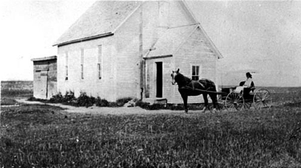 Wakem School, 1912. Provincial Archives of New Brunswick number P26-1.